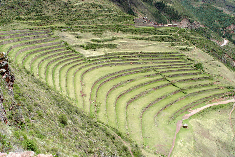 Pisac